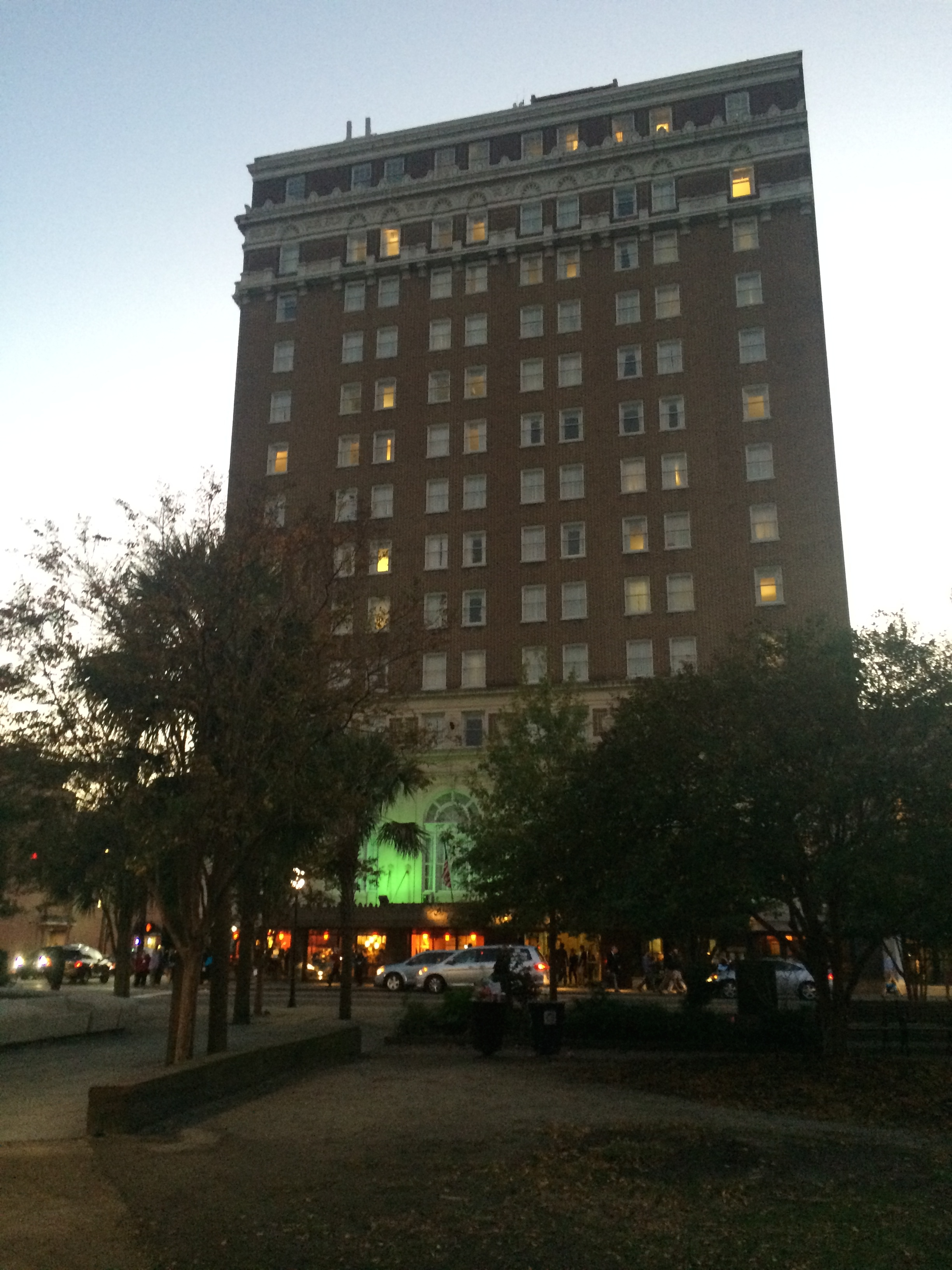 The Francis Marion hotel, and Marion Square, in Charleston, South Carolina. Located at the corner of King and Calhoun Streets in the Downtown area.